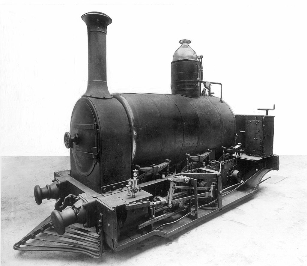 Belliss & Seeking 0-6-0 well tank steam locomotive, 'Secundus', made in 1874 in Birmingham, England for the Furzebrook Railway. For history